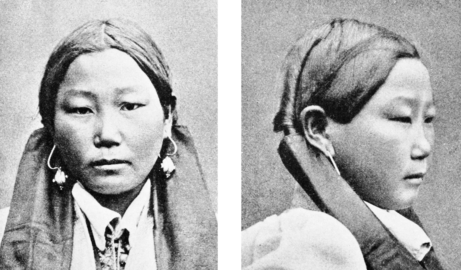 West Asian Kalmuk cephalic index 86